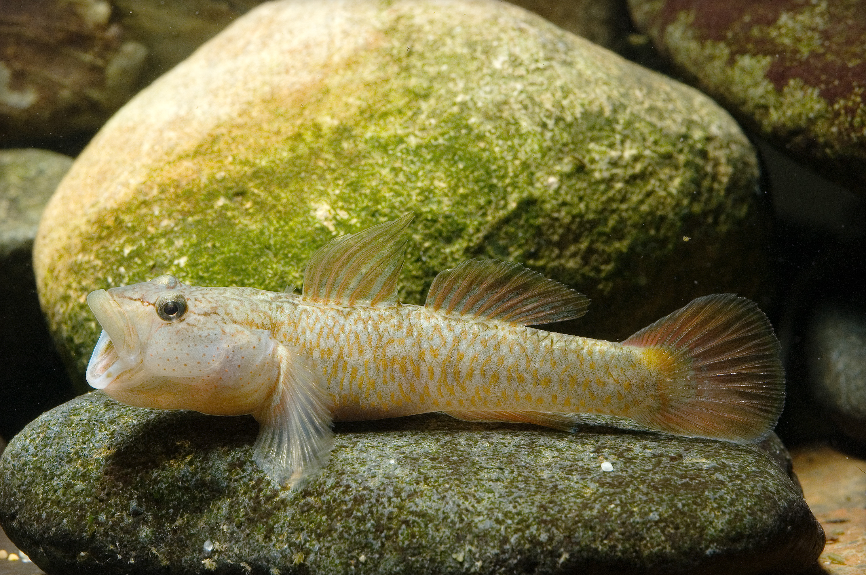 Kawayosinobori, Rhinogobius flumineus, from Hamamatsu, Shizuoka, Japan.